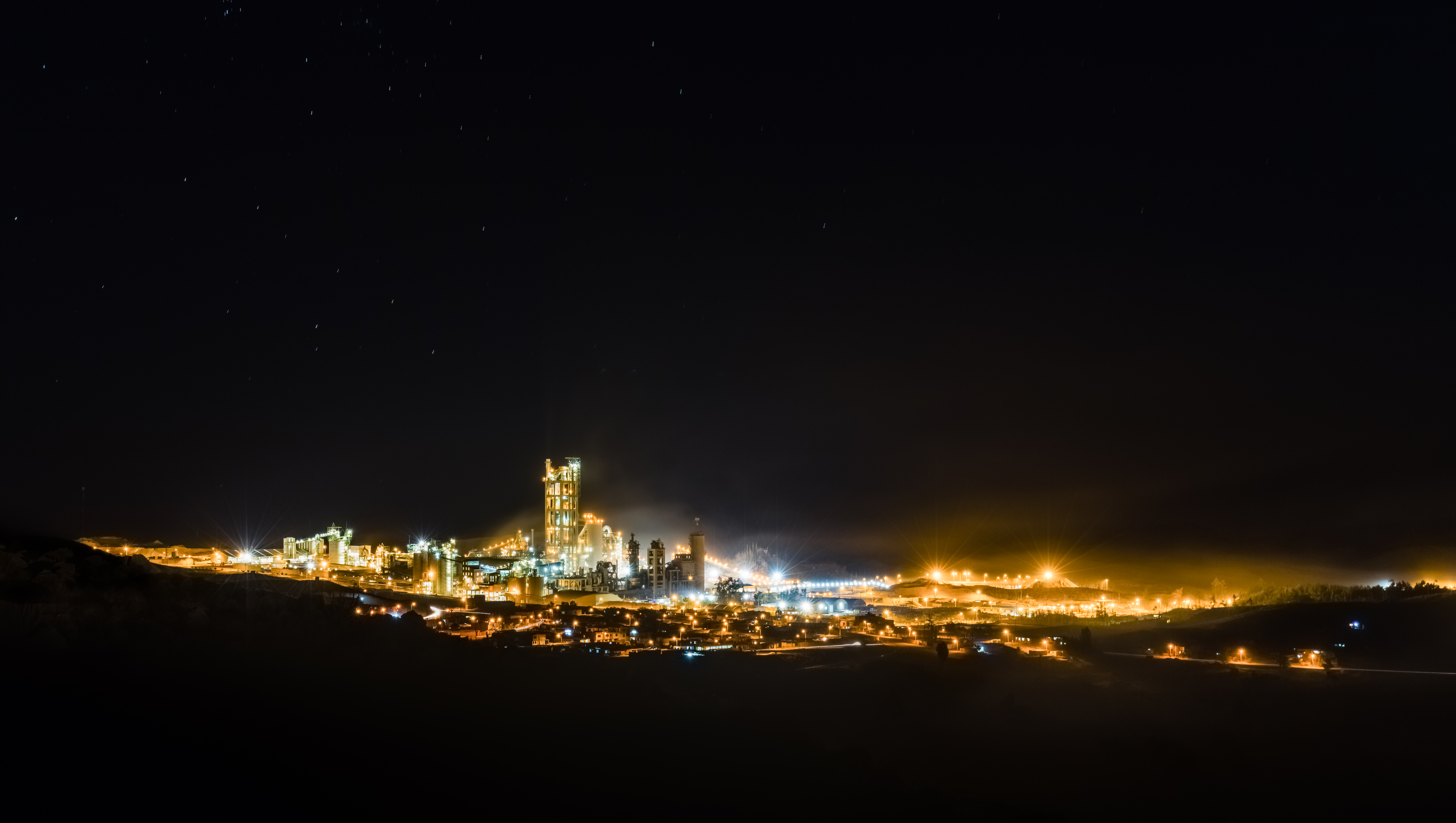 Night view of the Cement plant in the Yura District, Peru.